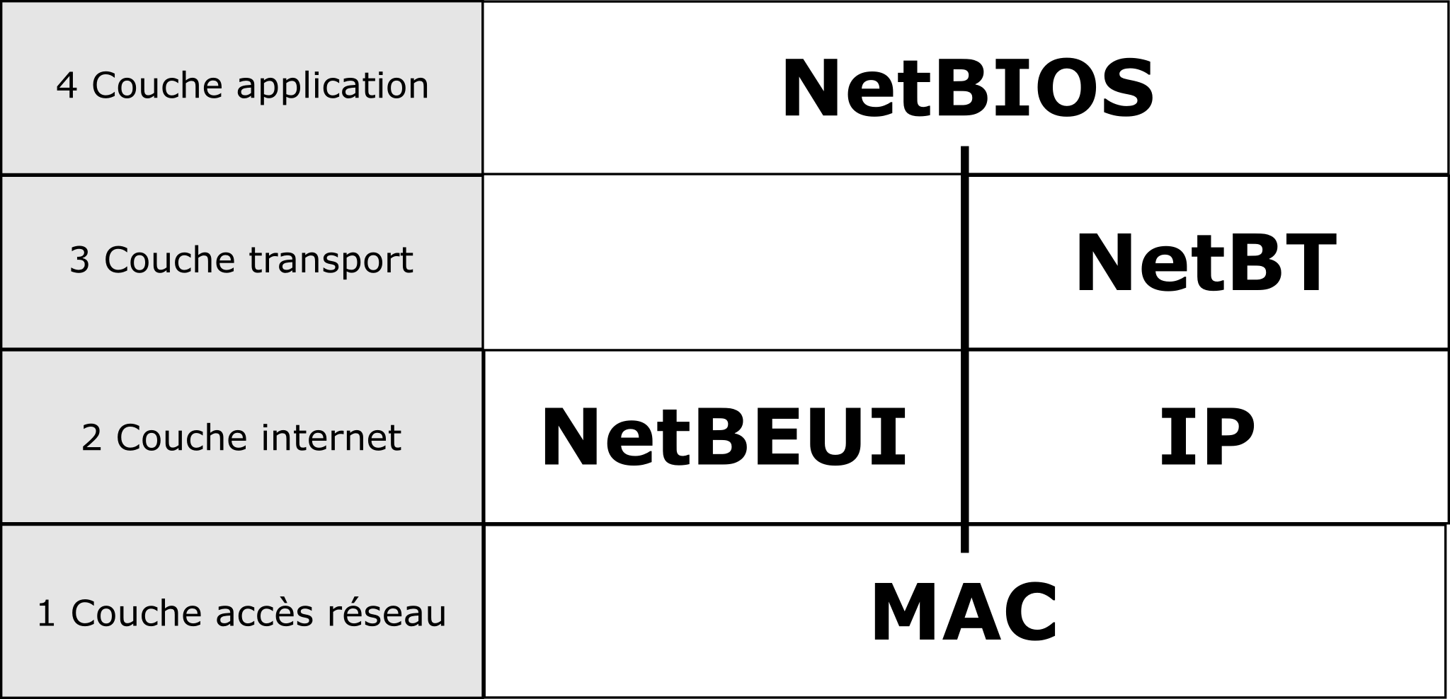 NetBIOS and TCP/IP model